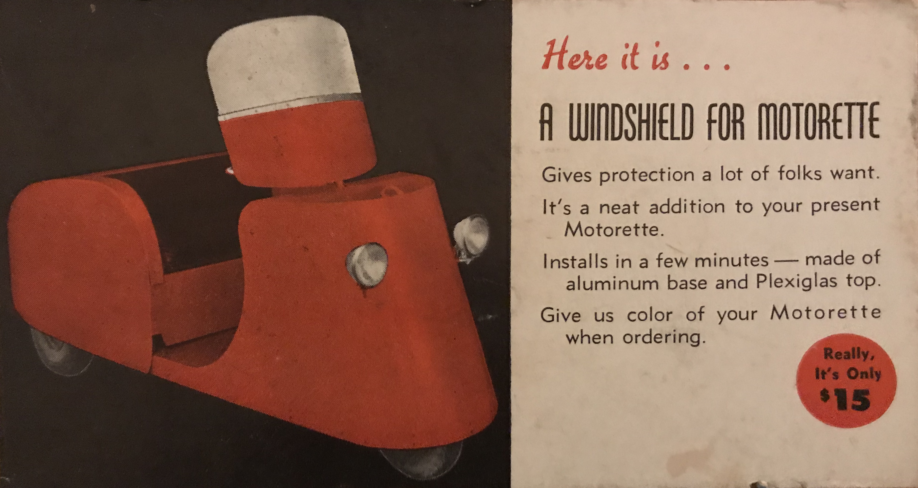 1946 company literature advertising the new windshield option for the Motorette